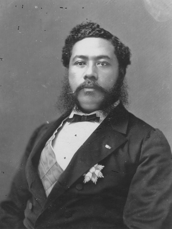 King David Kalakaua of Hawaii governed from 1874 to 1891.